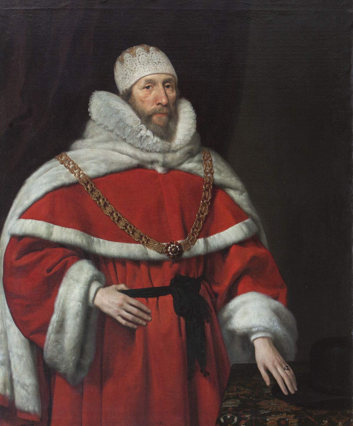 Portrait of Chief Justice Sir Henry Hobart (d.1625), 1st Bt. Courtesy of the collection of the National Trust.